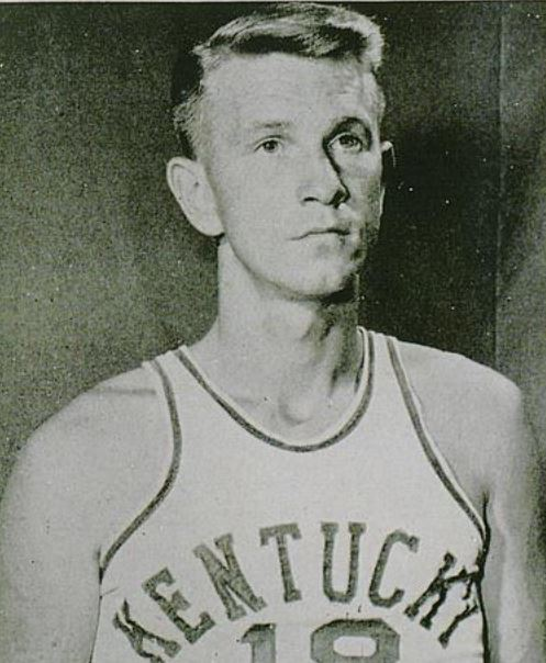 University of Kentucky basketball player Dale Barnstable from the 1948 "Kentuckian" yearbook